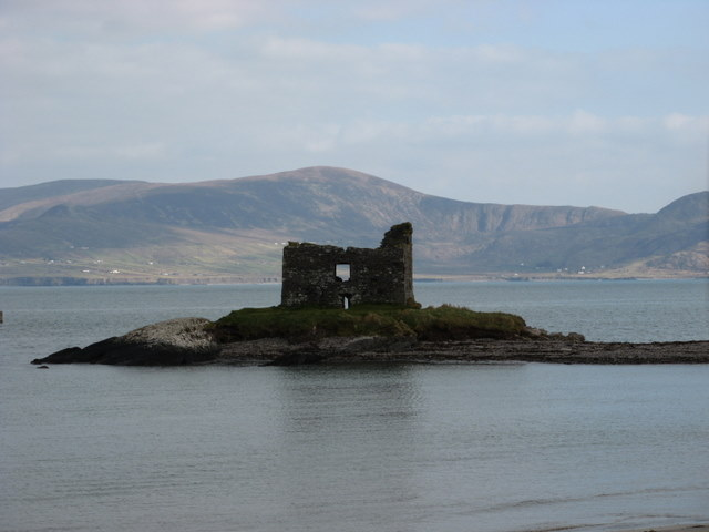 Ballinskelligs Castle